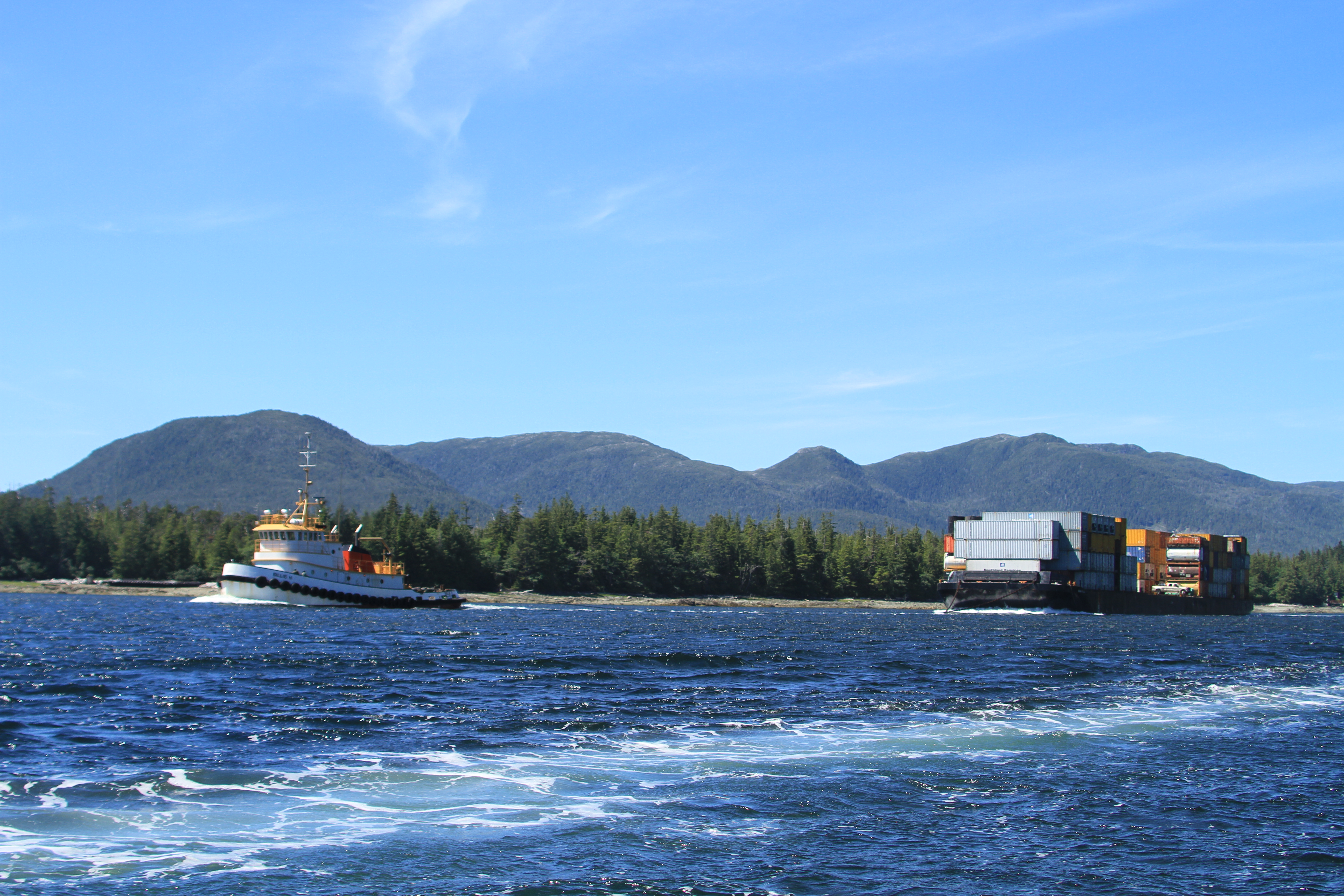 A tug boat pulling a barge moving goods in Alaska's inside passage.